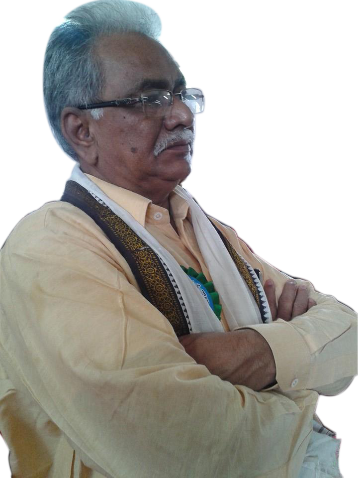 Palagiri Ramakrishna Reddy